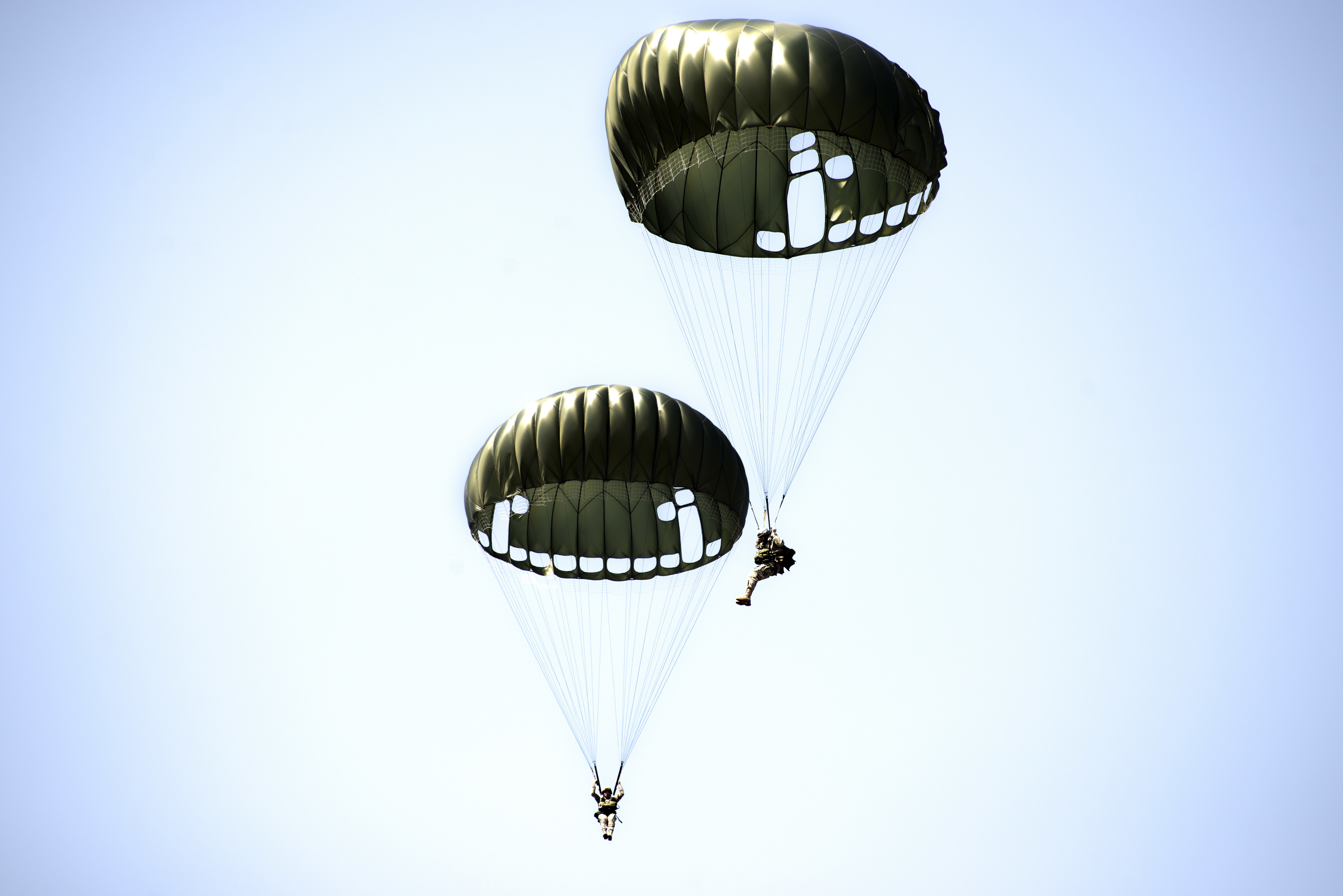 Republic of Georgia special operations forces parachute onto Vaziani Training Area, Georgia during a combined airborne operation with U.S. forces Aug. 4, 2017 as part of of exercise Noble Partner. Noble Partner is an annual U.S. Army Europe-led exercise designed to support Georgia’s integration into the NATO Response Force and allows multinational partners to work together in a realistic and challenging training event.